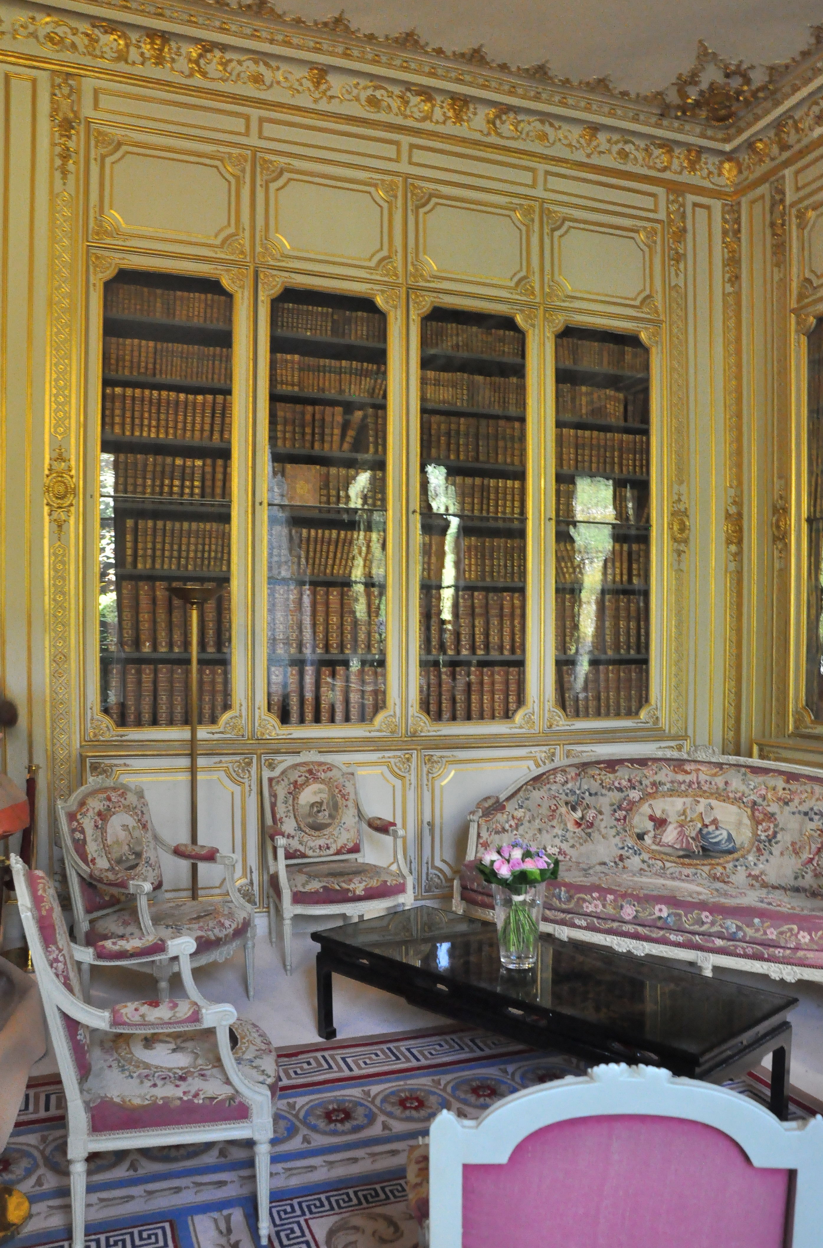 Royal Library of Hôtel de Bourvallais located at 13 place Vendôme in Paris 1st arrondissement in France is the current Attorney General's office. The sofa and chairs in the Louis XVI style are covered with Aubusson tapestries illustrating La Fontaine's fables.